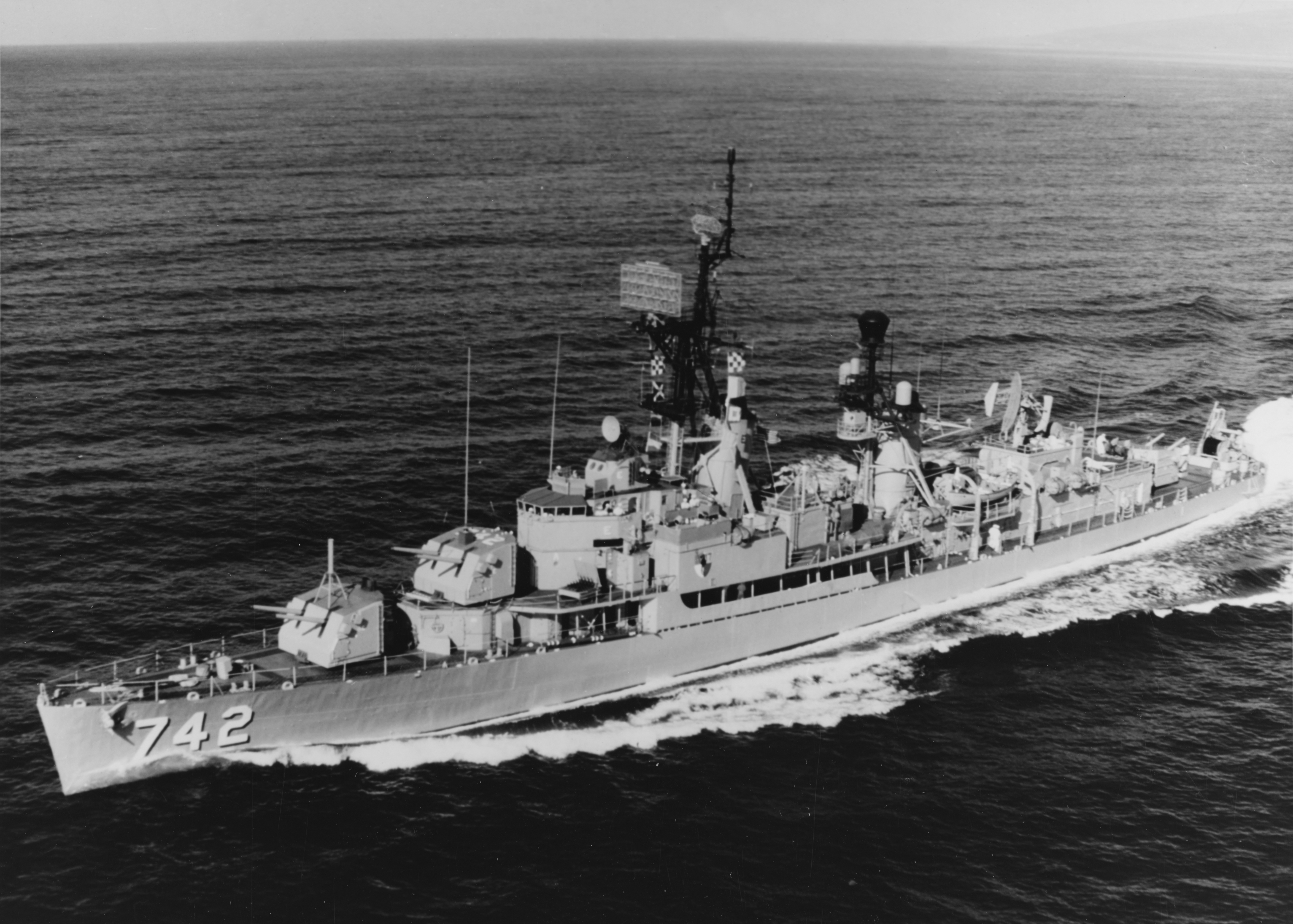 The U.S. Navy radar-picket destroyer USS Frank Knox (DD-742) underway near Hawaii (USA), January 1969. Frank Knox had been designated "DDR-742" until 31 December 1968.